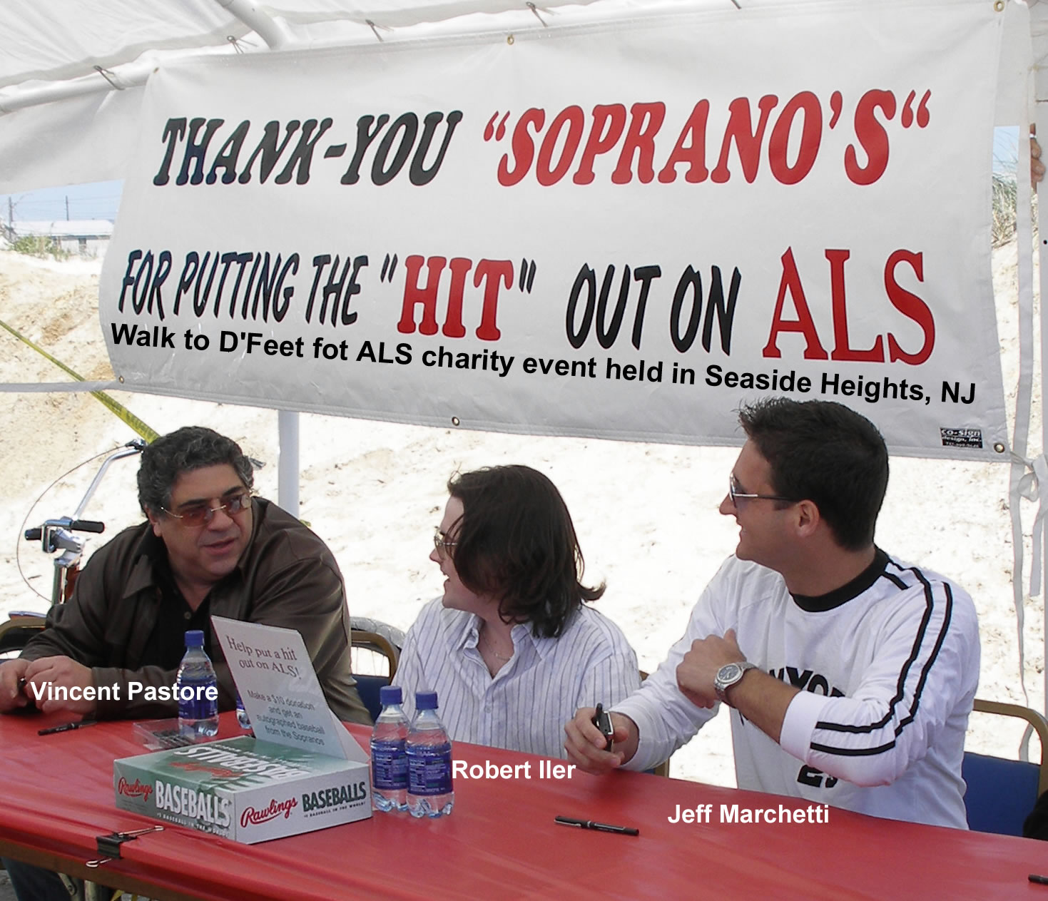 Vincent Pastore, Robert Iler and Jeff Marchett from The Sopranos helping to raise funds and awareness for the ALS Foundation, at the Walk to D'Feet event held at Seaside Heights, New Jersey